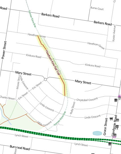 Map of the Hawthorn-Kew Rail Trail. Map data (c) OpenStreetMap contributors. Map style created by me.